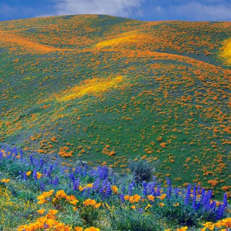 Kitulo national park in Tanzani